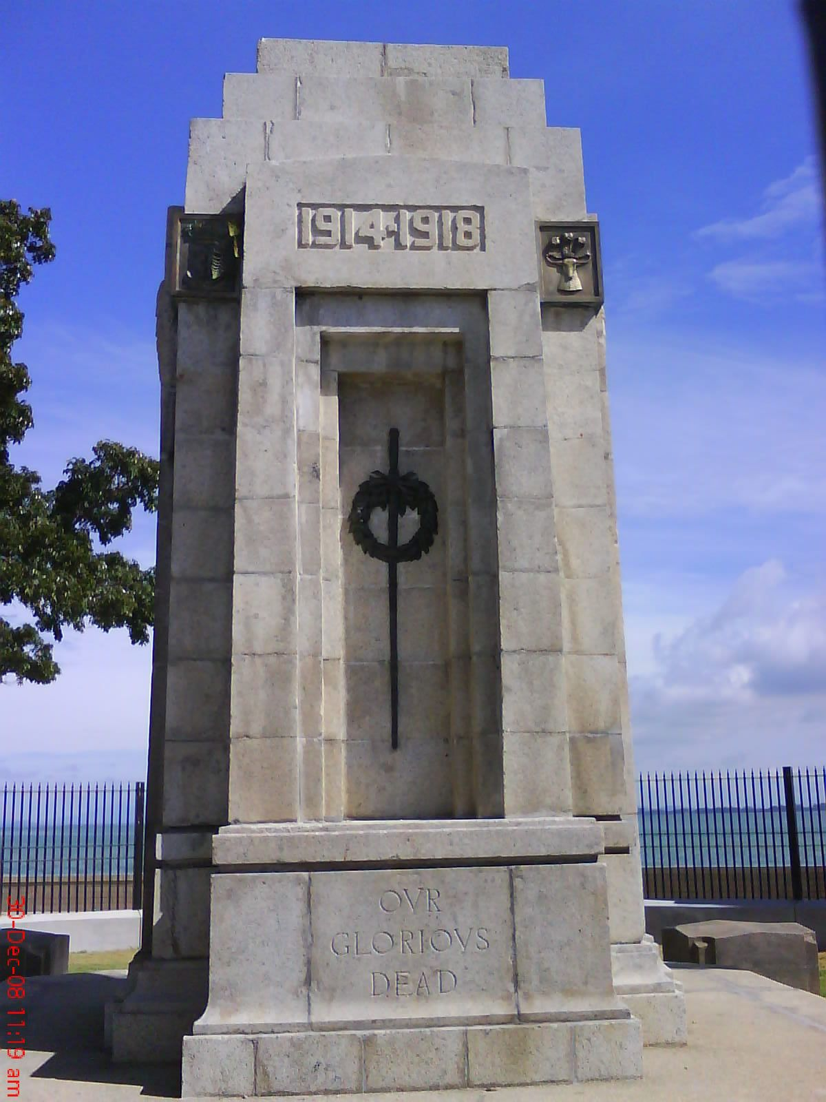 Cenotaph in esplanade